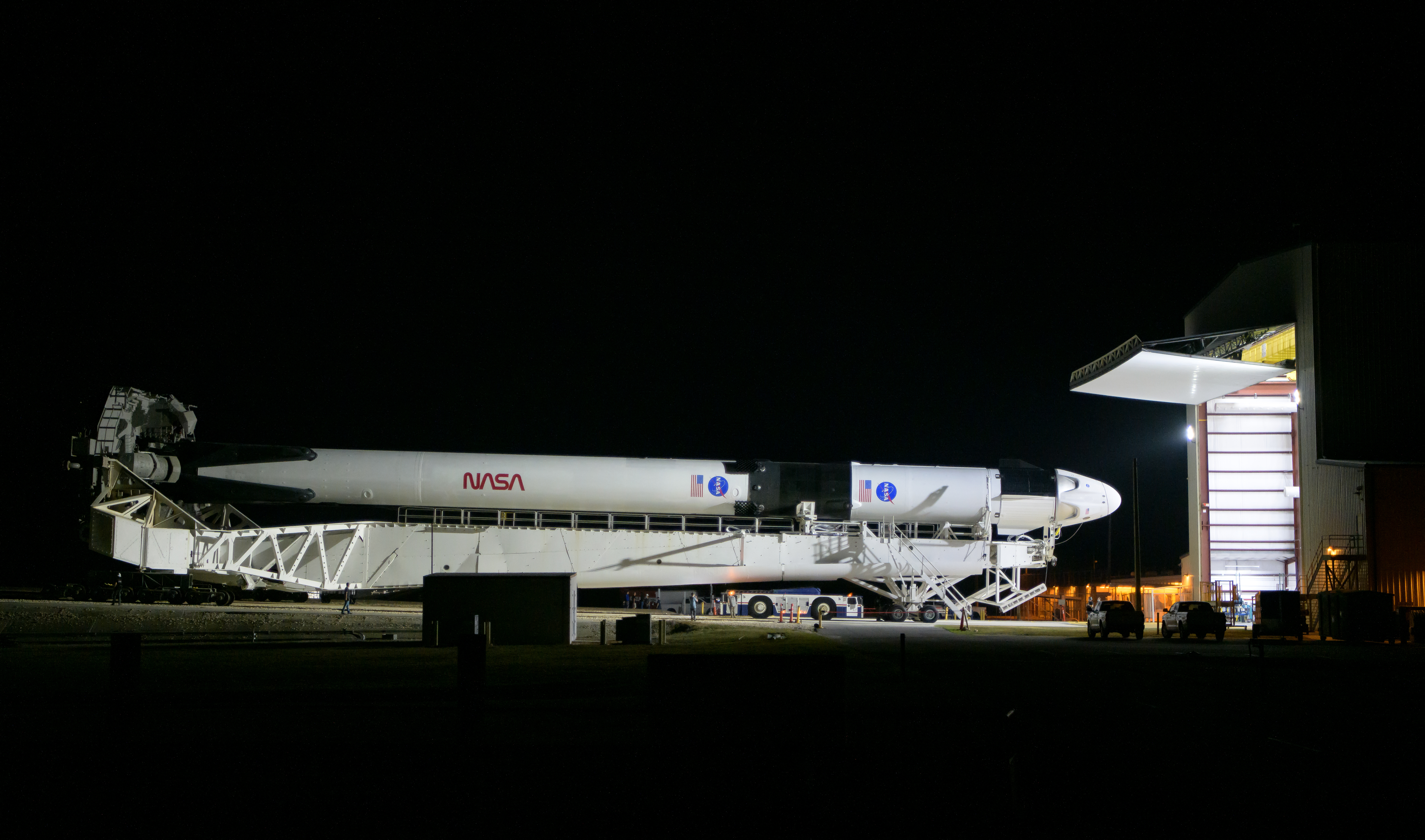 A SpaceX Falcon 9 rocket with the company's Crew Dragon spacecraft onboard is seen as it is rolled out of the horizontal integration facility at Launch Complex 39A as preparations continue for the Demo-2 mission, Thursday, May 21, 2020, at NASA’s Kennedy Space Center in Florida. NASA’s SpaceX Demo-2 mission is the first launch with astronauts of the SpaceX Crew Dragon spacecraft and Falcon 9 rocket to the International Space Station as part of the agency’s Commercial Crew Program. The flight test will serve as an end-to-end demonstration of SpaceX’s crew transportation system. Behnken and Hurley are scheduled to launch at 4:33 p.m. EDT on Wednesday, May 27, from Launch Complex 39A at the Kennedy Space Center. A new era of human spaceflight is set to begin as American astronauts once again launch on an American rocket from American soil to low-Earth orbit for the first time since the conclusion of the Space Shuttle Program in 2011.